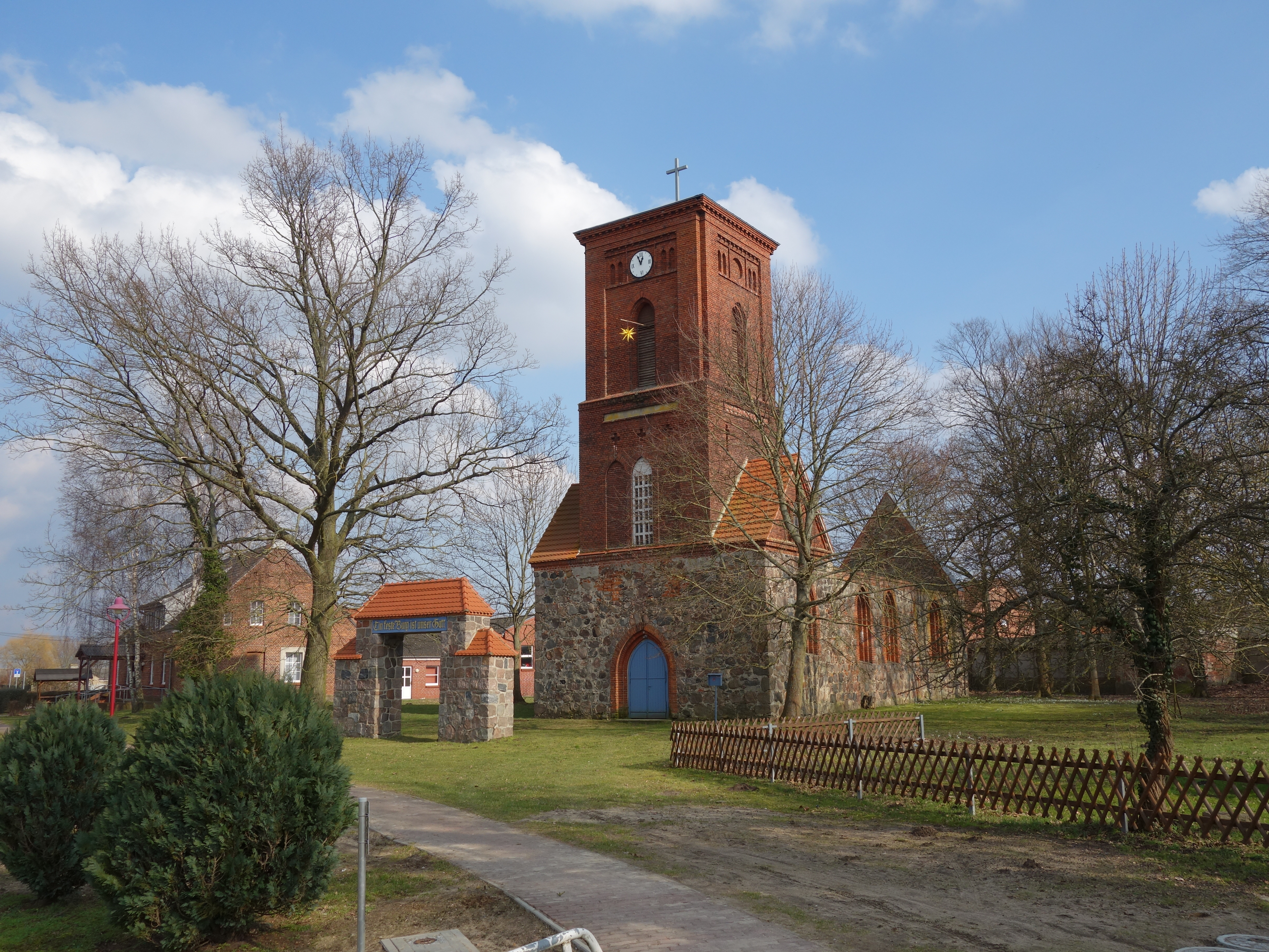 South-western view of Kränzlin church, Märkisch Linden municipality, Ostprignitz-Ruppin district, Brandenburg state, Germany